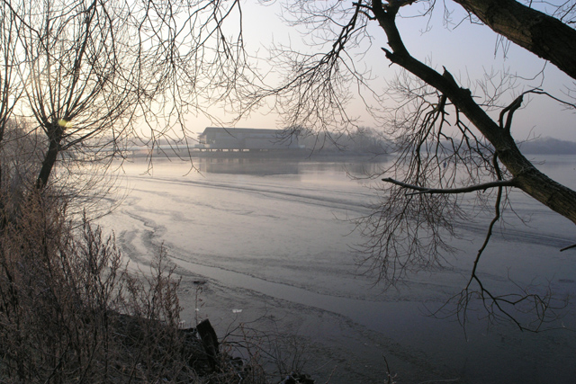 Visitor Centre, Attenborough Nature Reserve Just after sunrise on a very frosty morning.